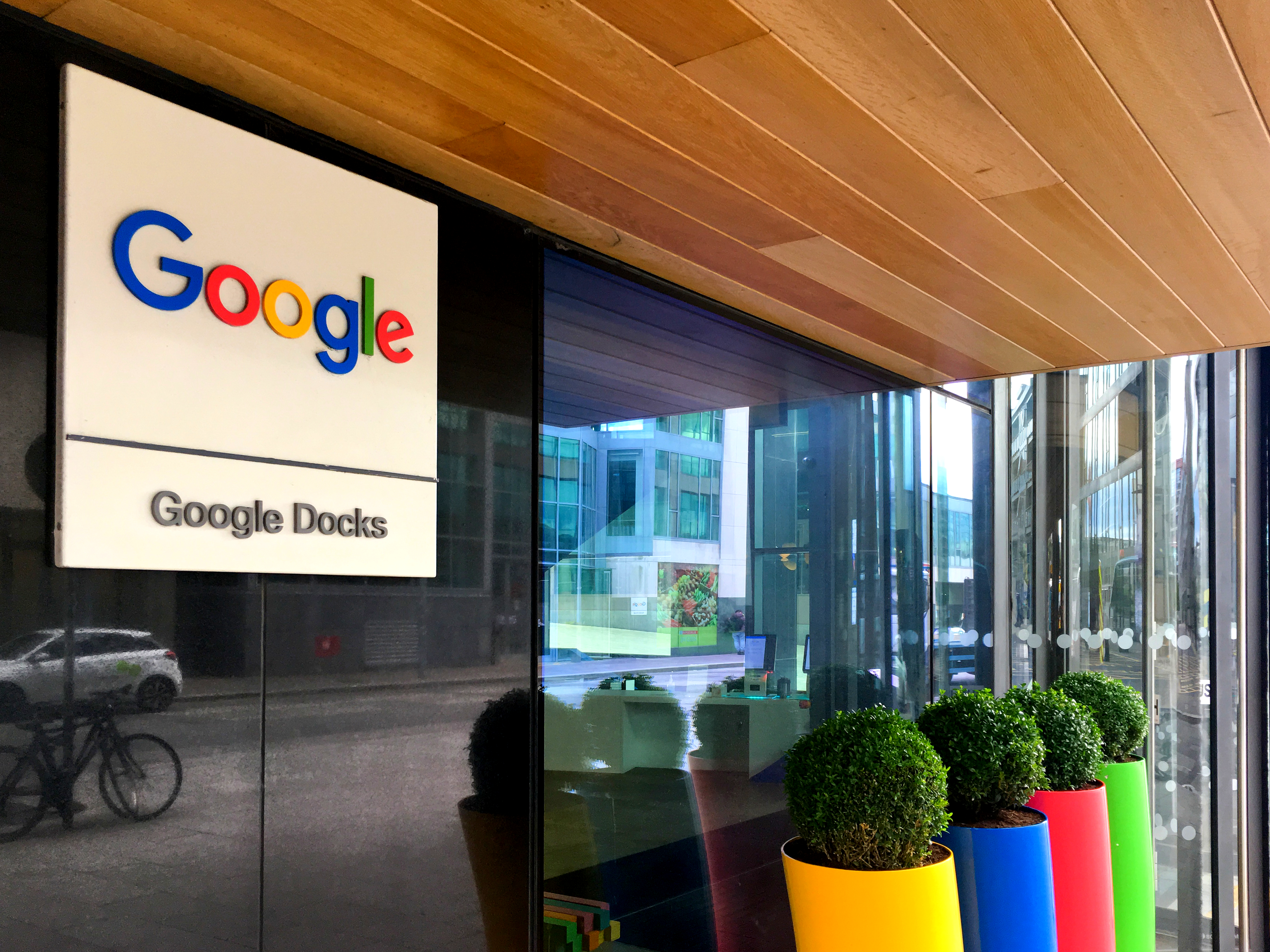 Main entrance to Google's headquarters in the docklands area of Dublin Ireland. Shows Google logo on sign and plant pots using the company's official colors